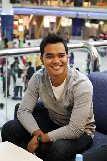 Alif Satar at the Make A Sundae With Alif Satar